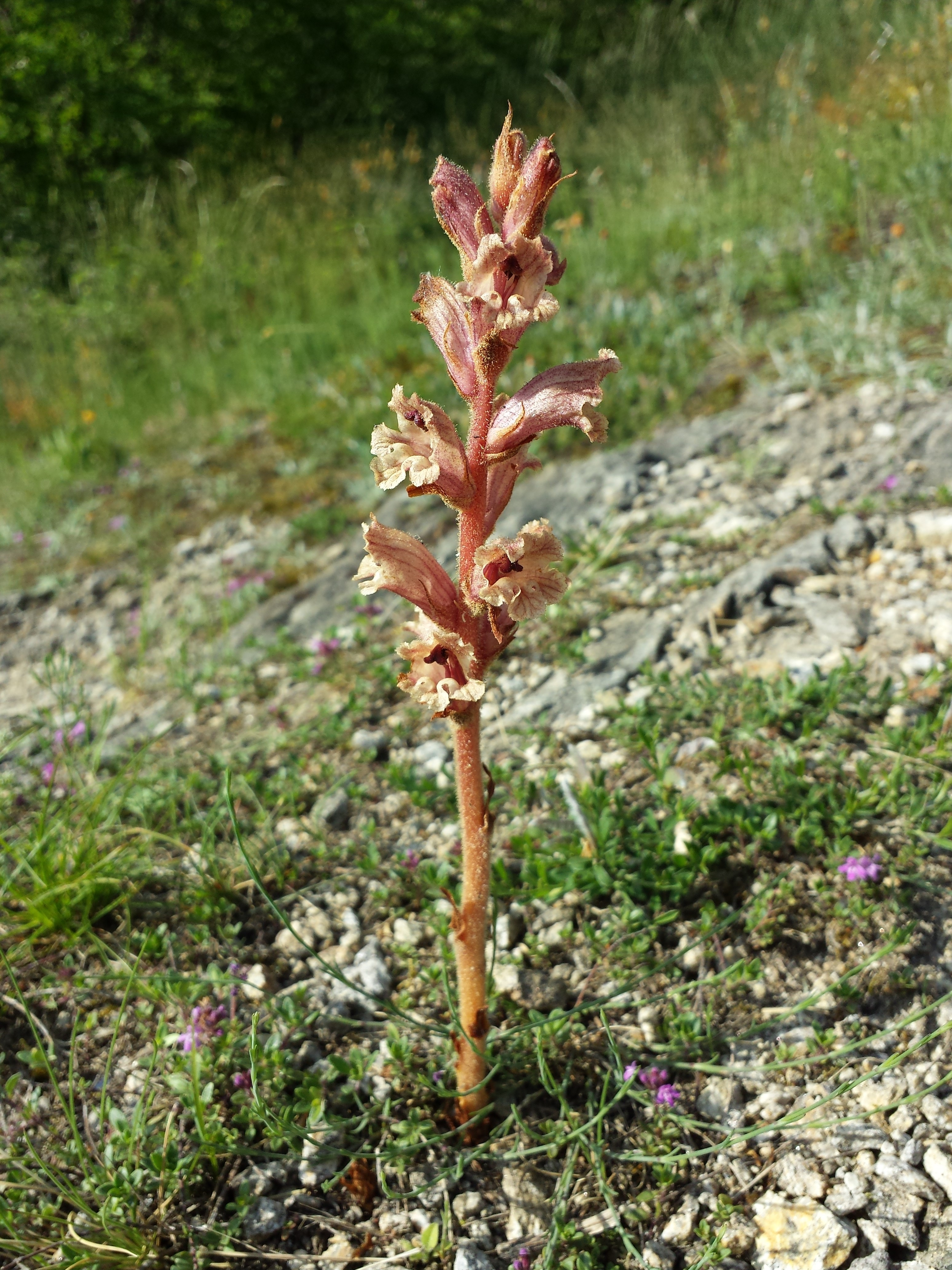 Habitus Taxonym: Orobanche alba ss Fischer et al. EfÖLS 2008 ISBN 978-3-85474-187-9 Location: Kellerberg Dürnstein, district Krems-Land, Lower Austria - ca. 250 m a.s.l. Habitat: dry grassland This media shows the natural monument in Lower Austria with the ID KR-109.